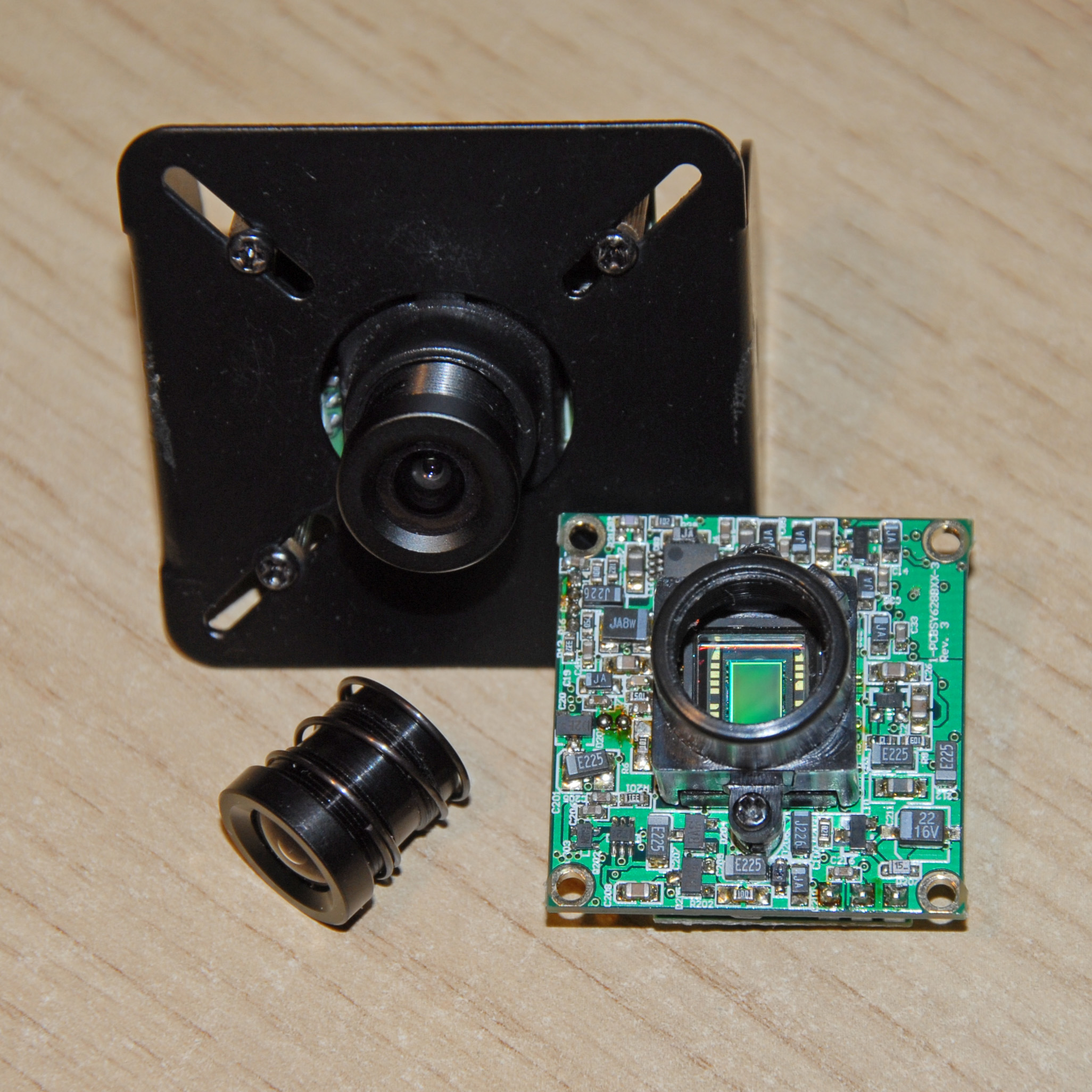 S-mount camera PCB. One with lens detached exposing a 1/3" Sony CCD.